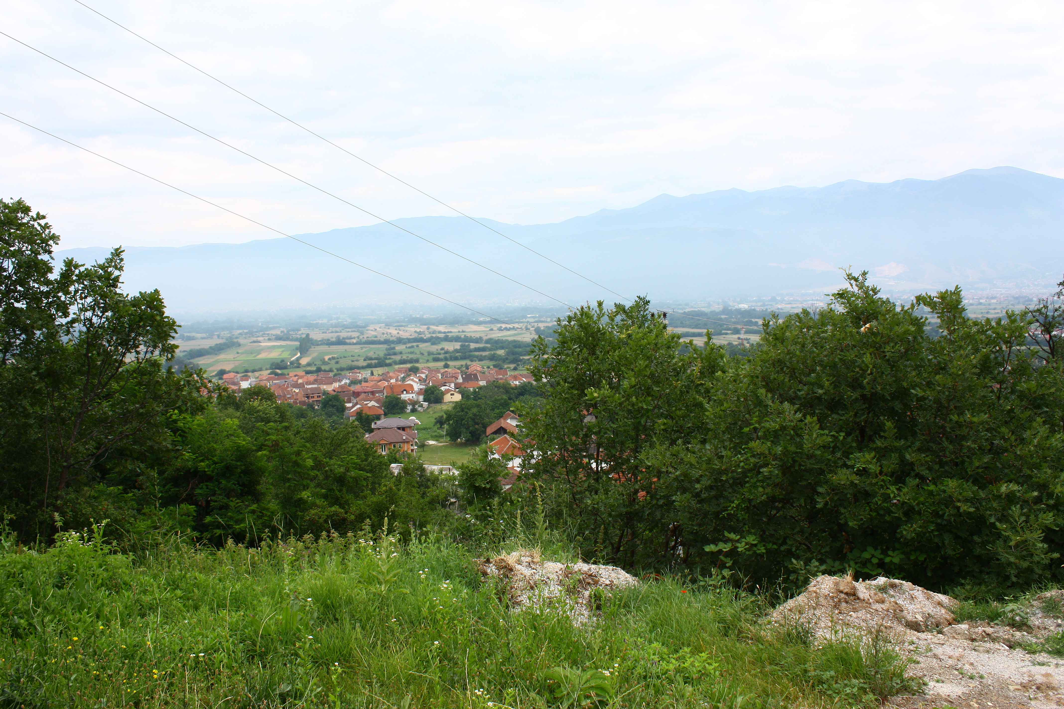 Debreše, Macedonia